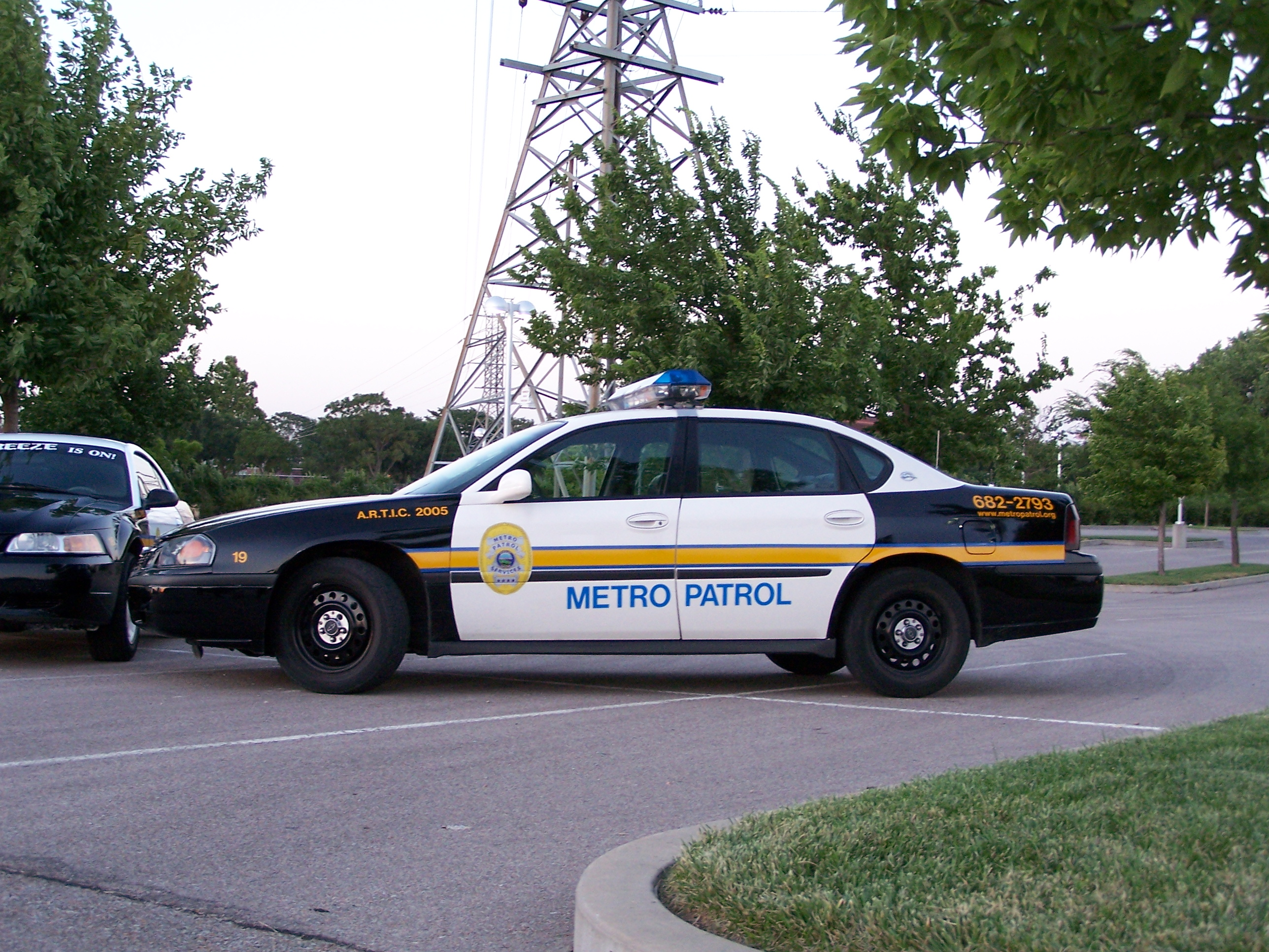 I am the Copyright holder and uploaded this Press Release photo.